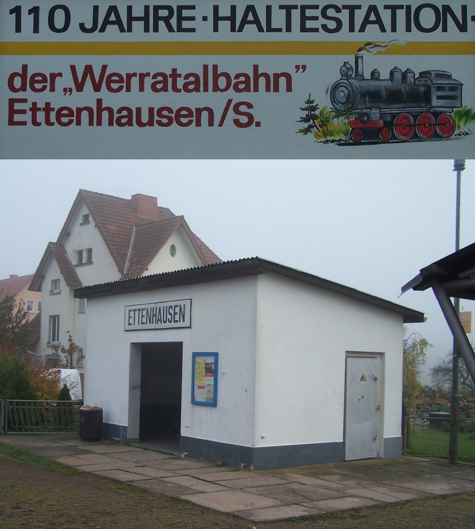 The railway station in Ettenhausen/Suhl.